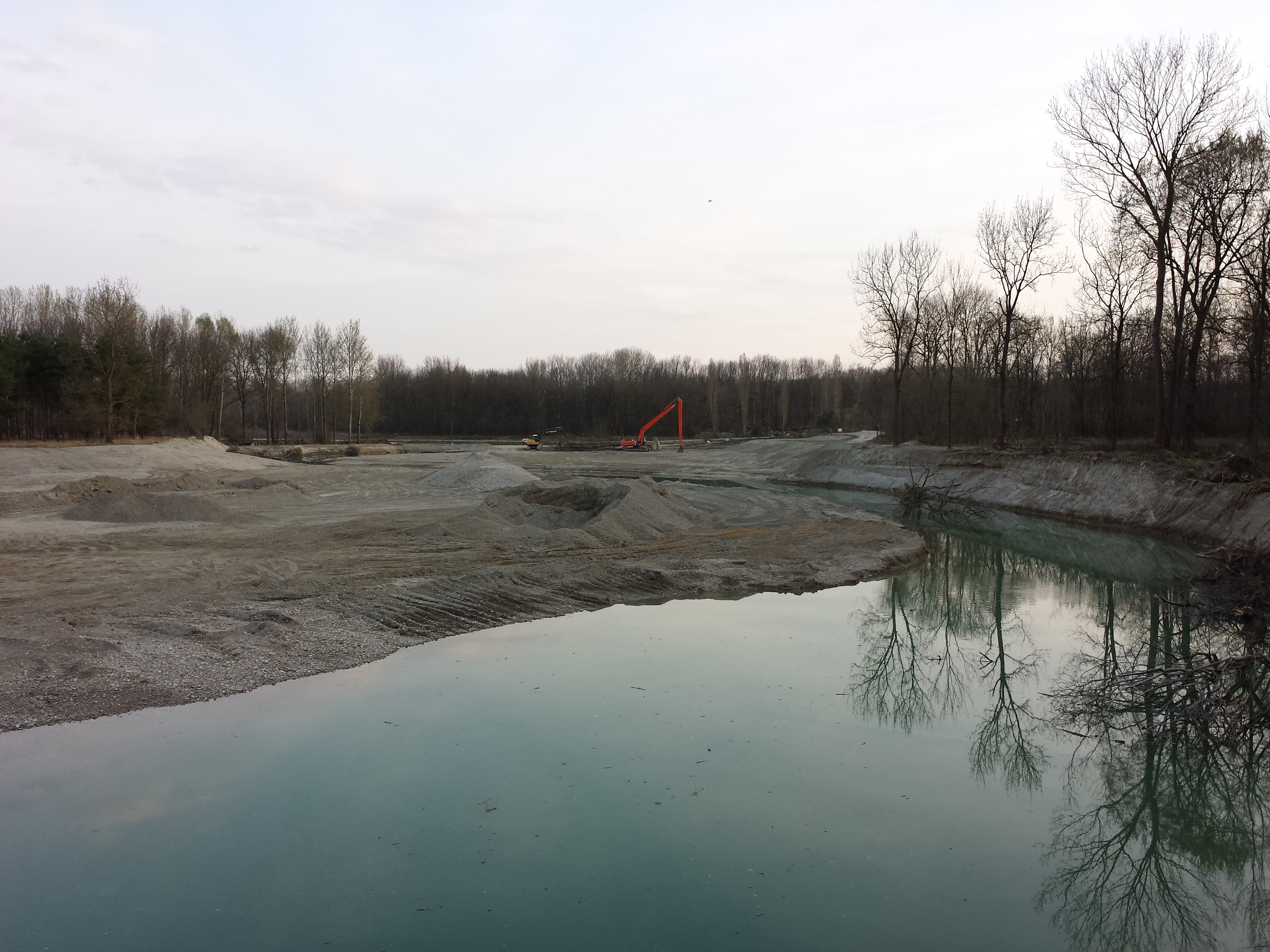 Renaturation activities at lower course of Traisen river, Zwentendorf an der Donau, district St. Pölten-Land, Lower Austria